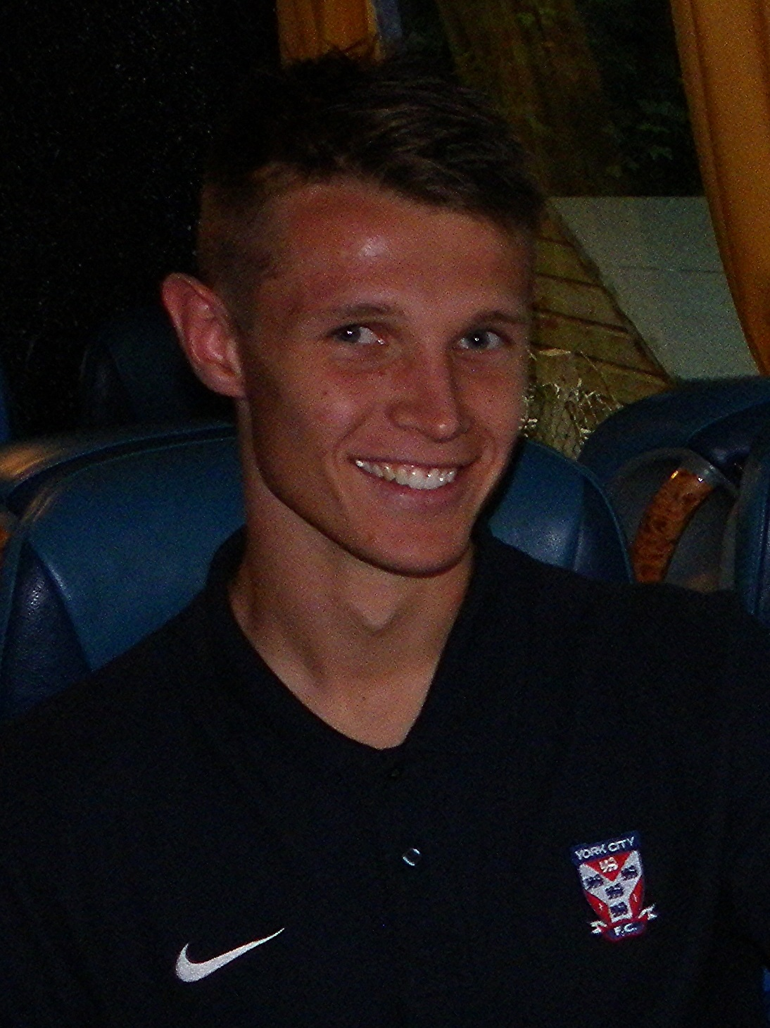 Chris Kettings. Image cropped from original at flickr.